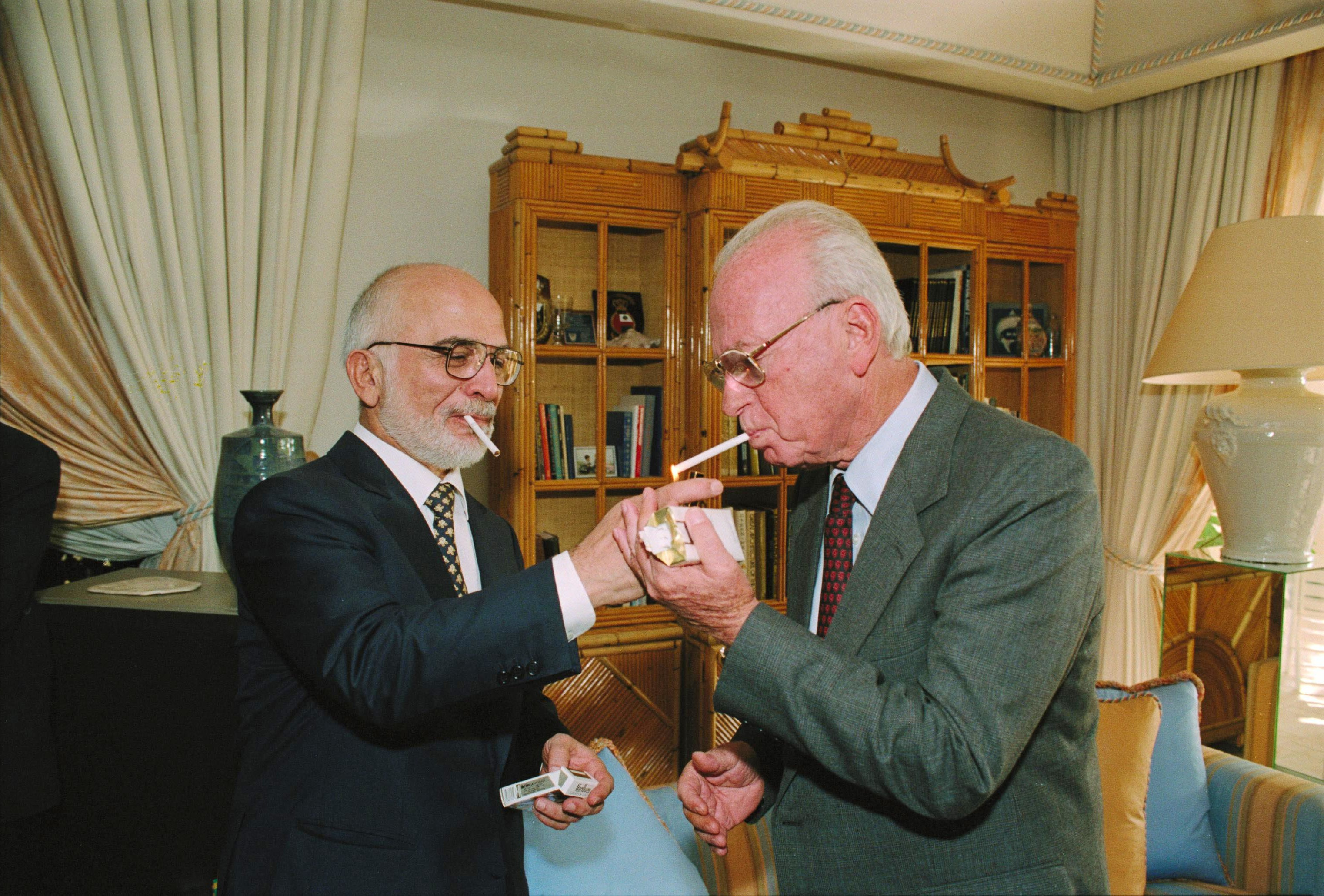 King Hussein of Jordan lights Israeli Prime Minister Yitzhak Rabin's cigarette at his royal residence in Akaba, shortly after signing the peace treaty at Arava border-crossing.